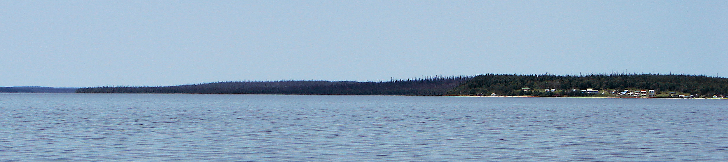 Lake Nemiscau, Quebec, Canada, with the Cree settlement of Nemiscau on its shore.